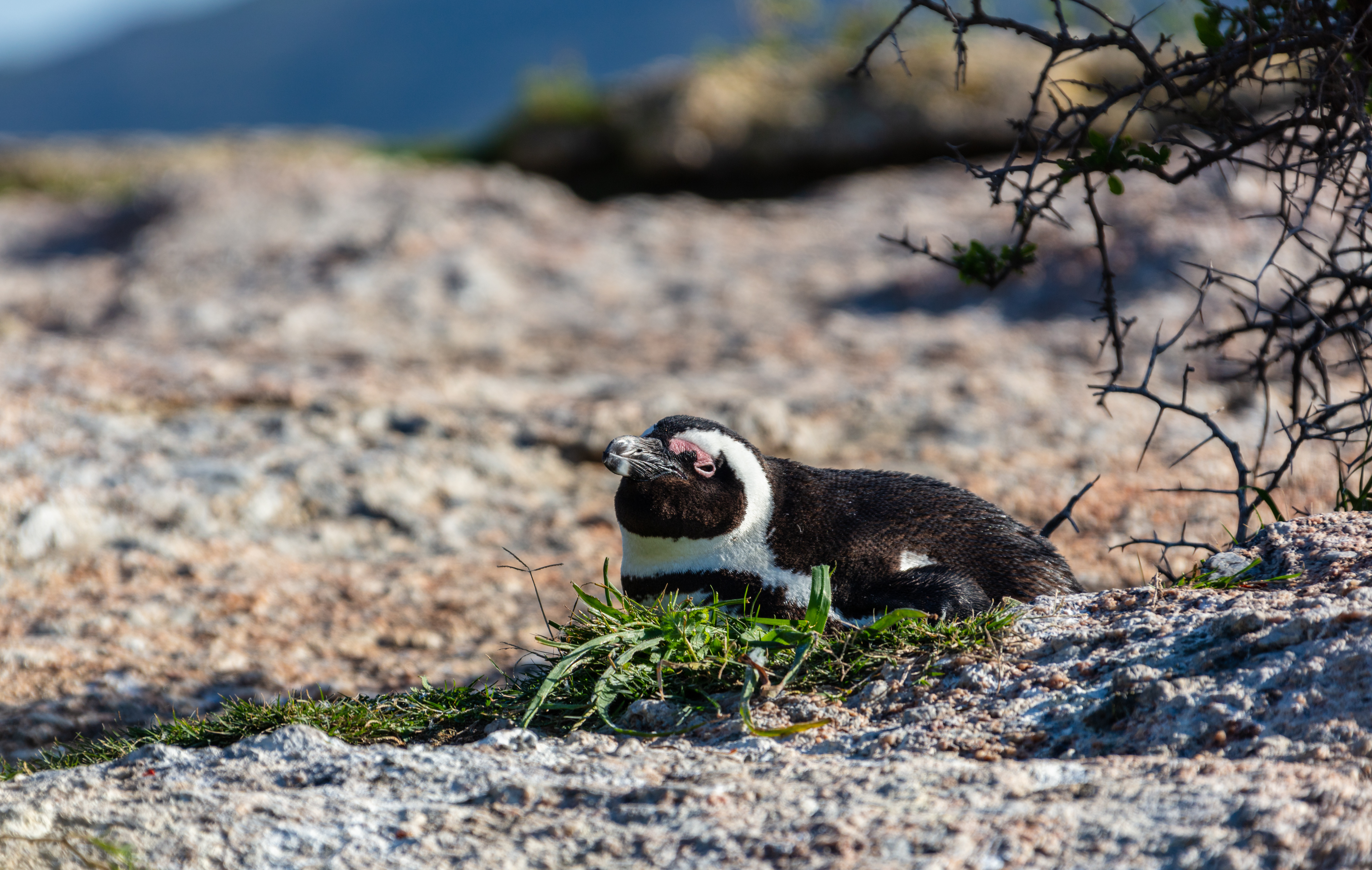 African penguin (Spheniscus demersus), Boulders Beach, Simon's Town, South Africa